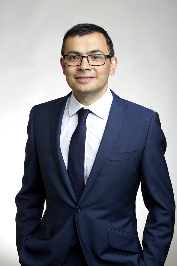 Demis Hassabis is a British artificial intelligence researcher, neuroscientist, video game designer, entrepreneur, and world-class games player Attribution: The Royal Society